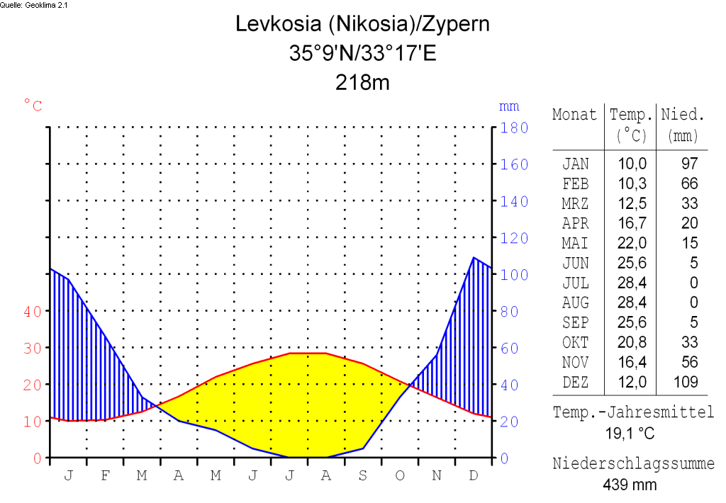 climate chart in the format by Walter and Lieth, metric, °Celsisus and millimeters, made with Geoklima 2.1